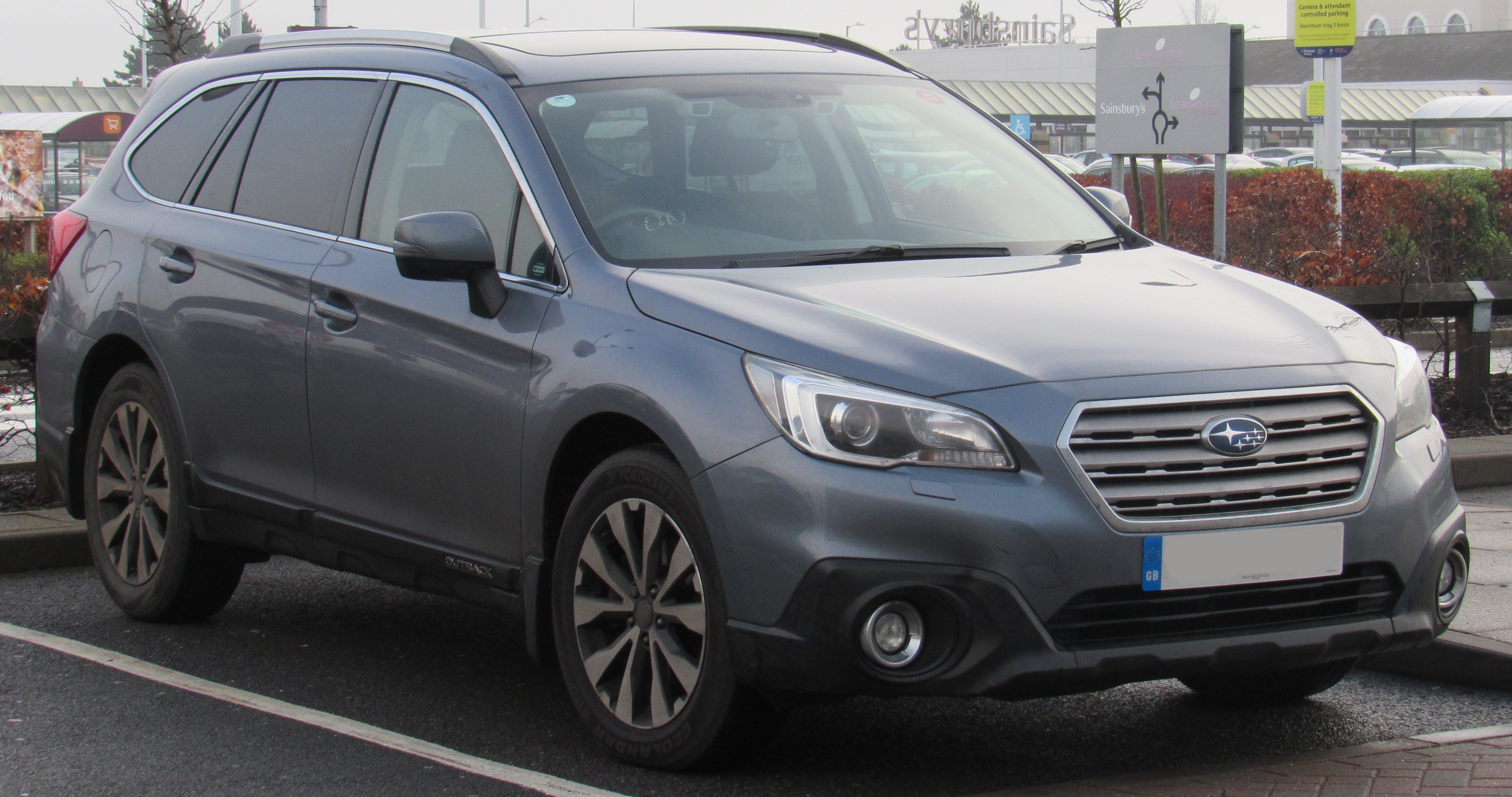 2015 Subaru Outback SE Premium Diesel SYM AWD 2.0 Taken in Leamington Spa